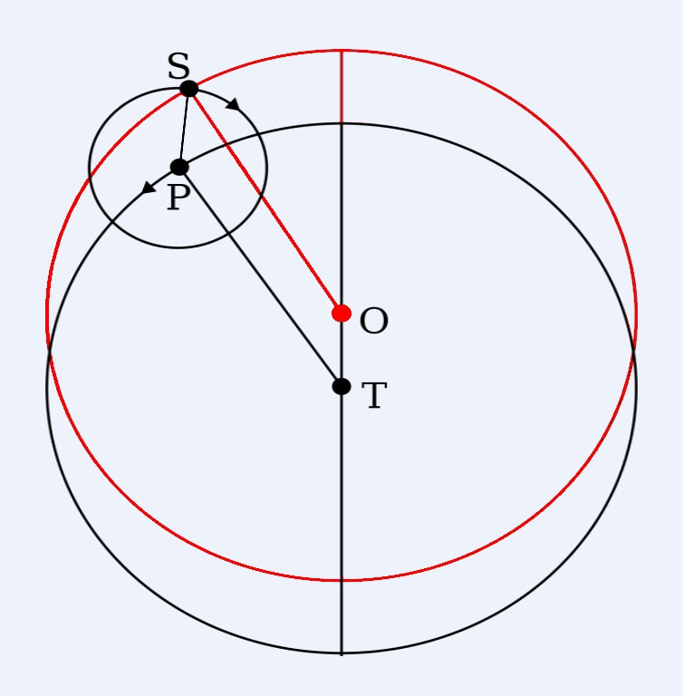 Movement of the sun according to Hipparchus's theory of epicycles, recounted by Ptolemy. Earth (T) is the center of the deferent, P is the center of the epicycle of the Sun (S). The result is in red.